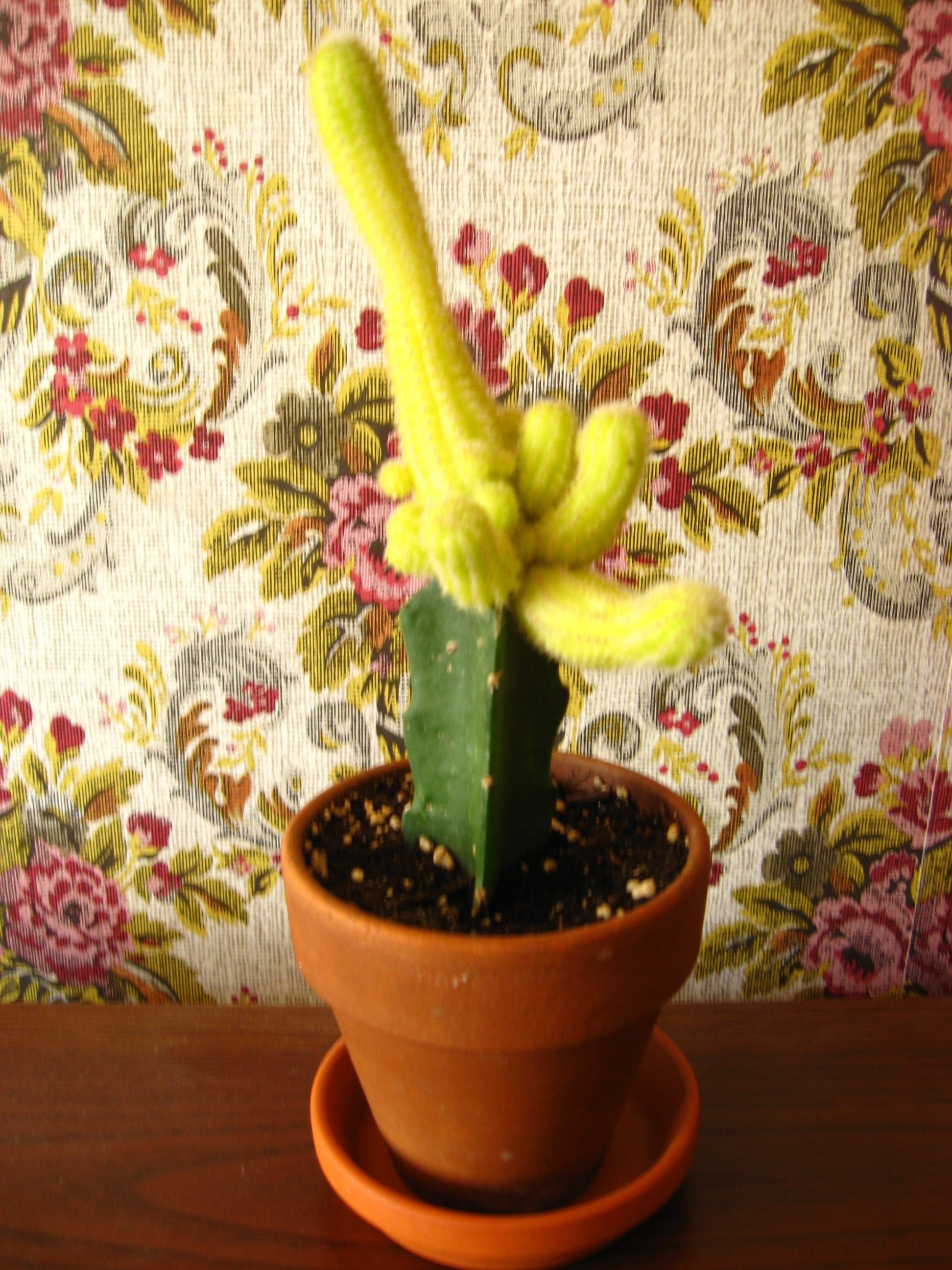 Chamaecereus selvestrii. Forma aurea. Grafted cactus. Photo author Jüri Goltsov